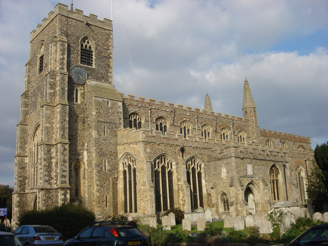 Church of St Peter & St Paul in Clare, Suffolk, England. A Grade I listed medieval church.